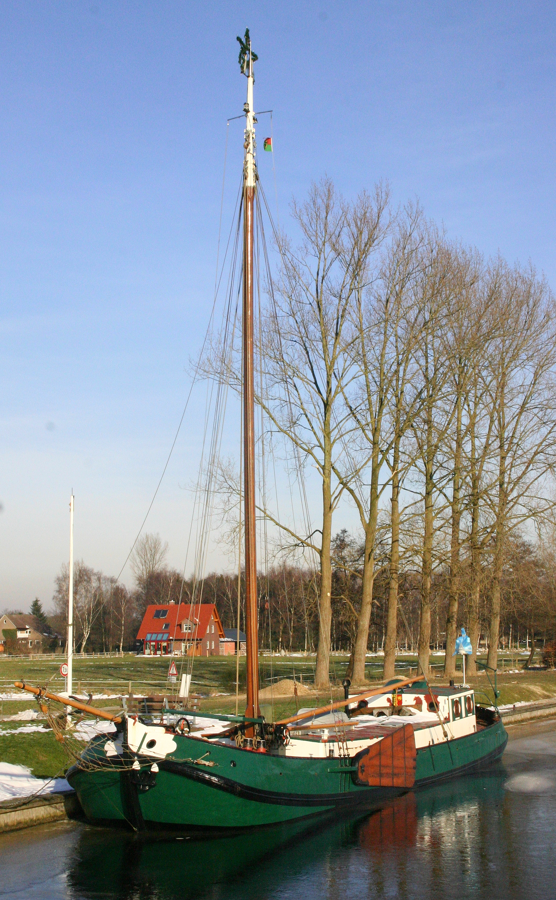 A "tjalk" (historic type of ship originating in the Netherlands) in Ihlow, district of Aurich, East Frisia, Germany